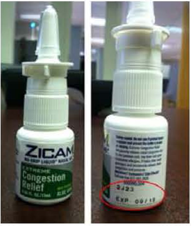 December 18, 2012 – Product Recall – Matrixx Initiatives Issues Nationwide Voluntary Recall of One Lot of Zicam® Extreme Congestion Relief Due to Contamination With Burkholderia Cepacia. For additional information, please refer to the company issued press release available on FDA’s web site at